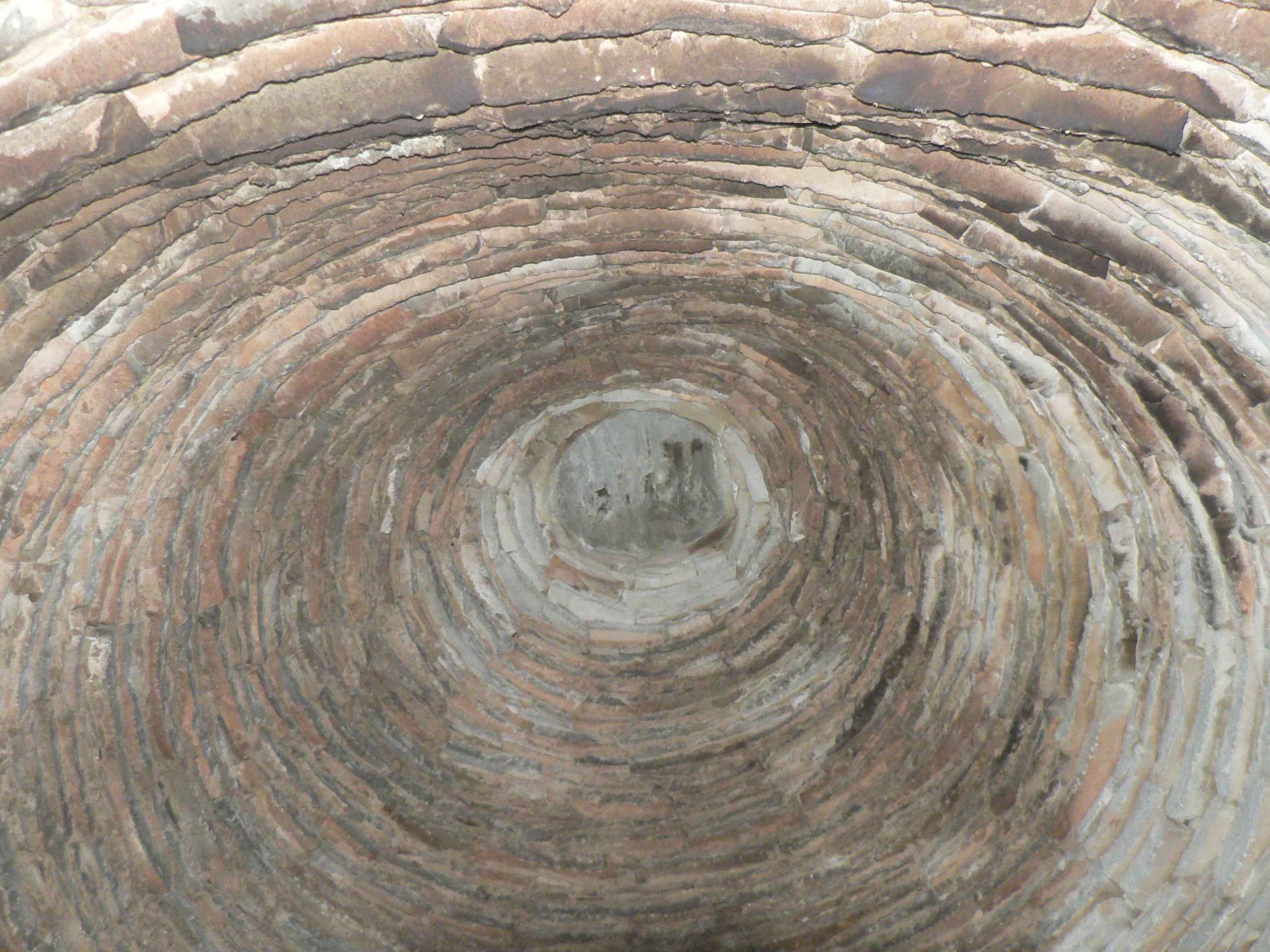 Interior view of corbelled roof structure. This media shows a South African Protected Site with SAHRA file reference 9/2/019/0011.